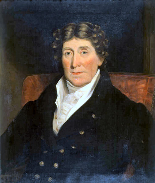 Painting of Lieutenant Governor Cornelius Smelt, painted by Thomas Barber in 1826.